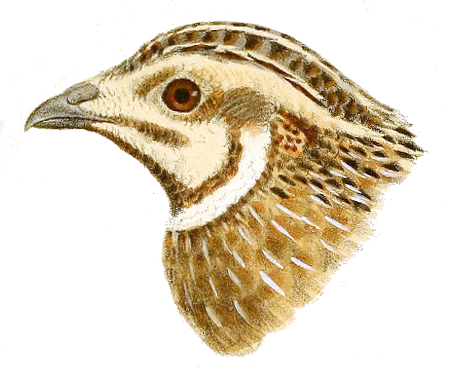 Drawing of head of Corturnix corturnix.